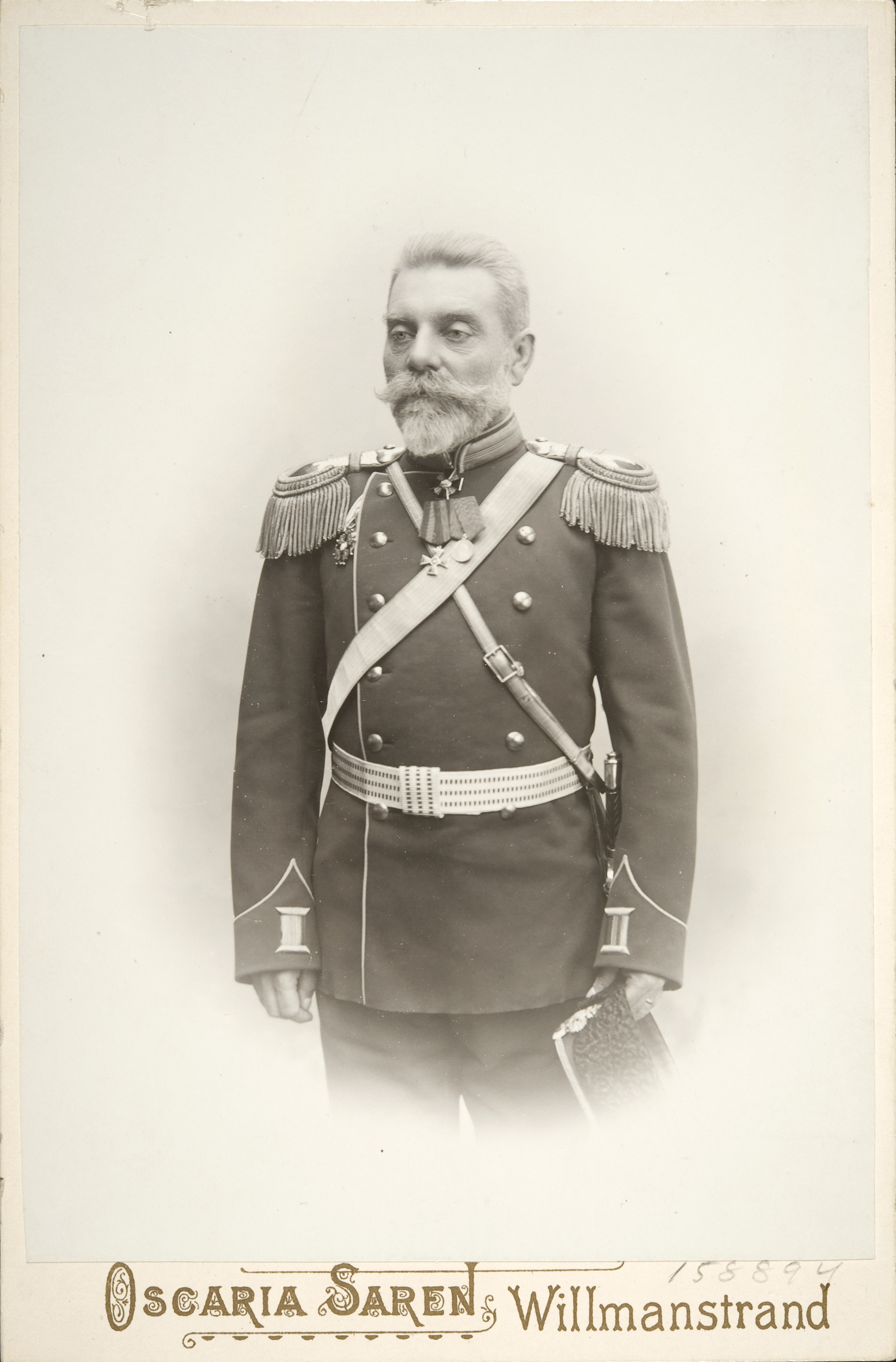 Photograph of the Finnish general Theodor Schauman (1849–1931).